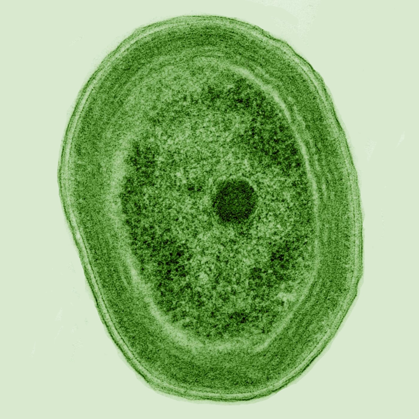 TEM image of Prochlorococcus marinus with overlay green coloring. A globally significant marine cyanobacterium.